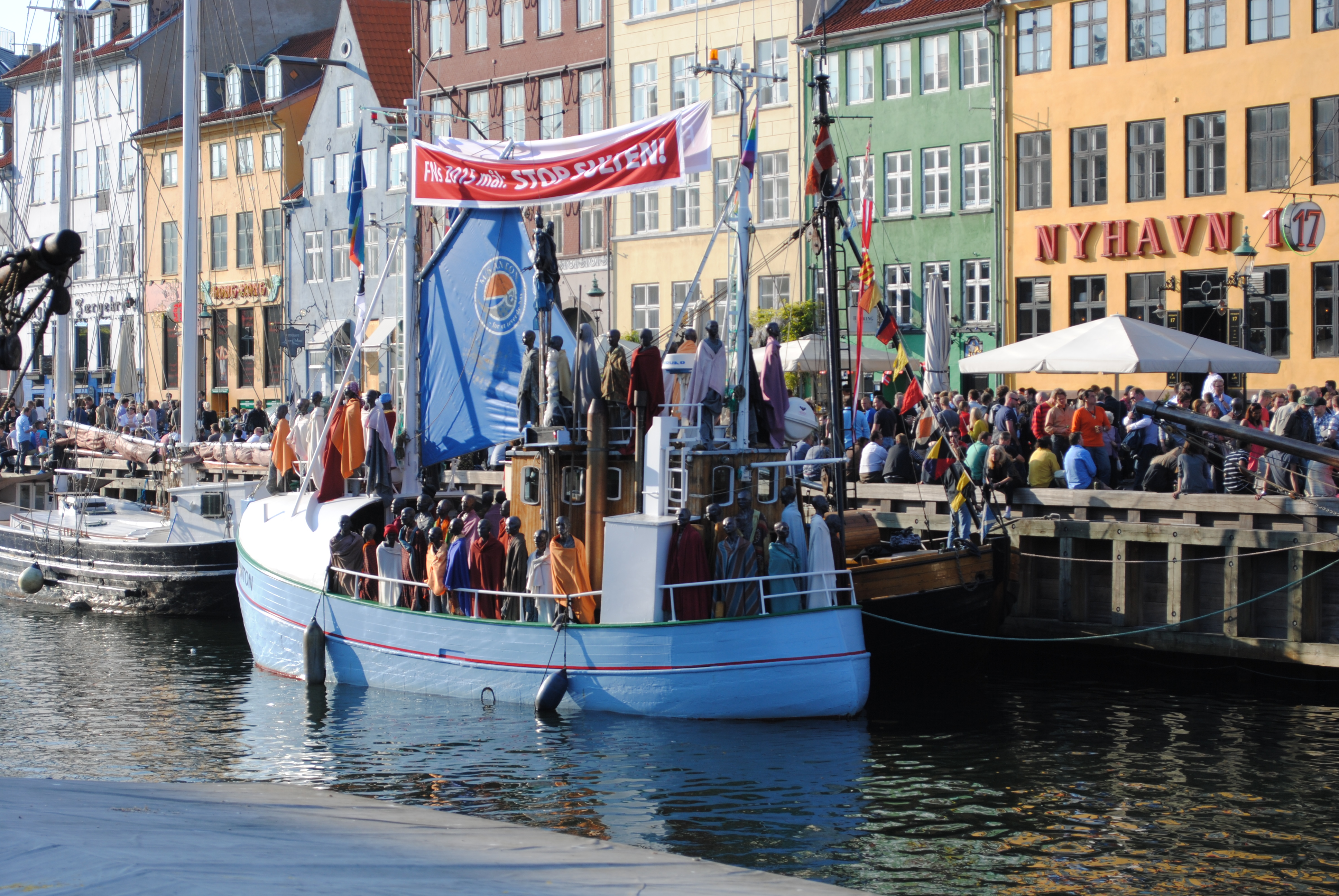 The sculpture "the refugee ship" is made by the Danish artist Jens Galschiot. The sculpture was exhibited at Nyhavn in Denmark.